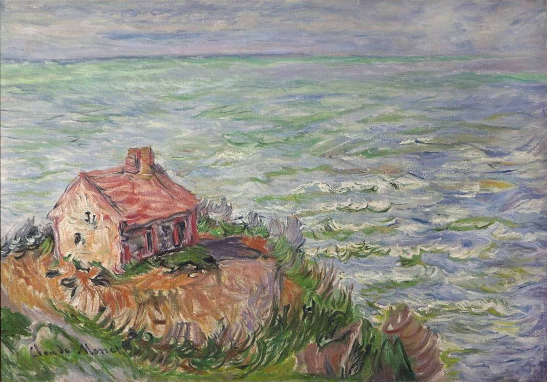 Cabane des douaniers, effet d'après-midi (1882)